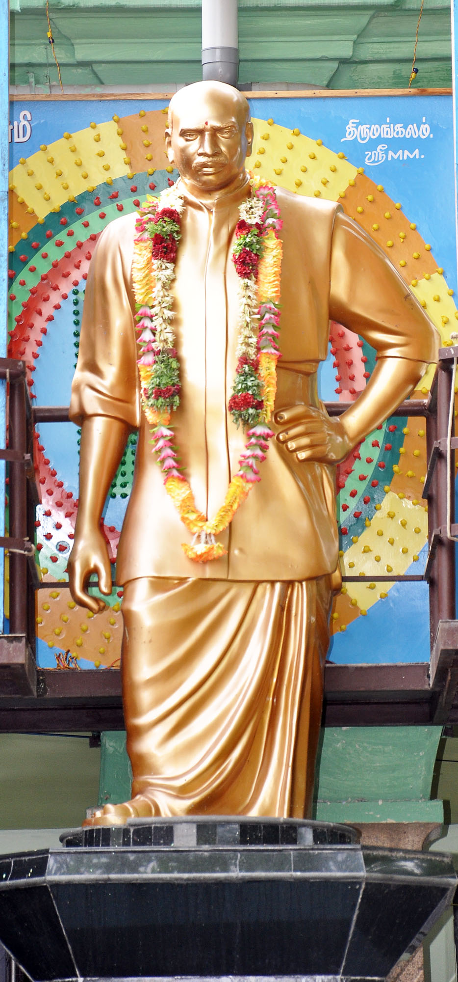 Kamarajar Statue situated in Thirumangalam PKN Higher Secondary School, erected on the occasion of PKN's 100 year celebration